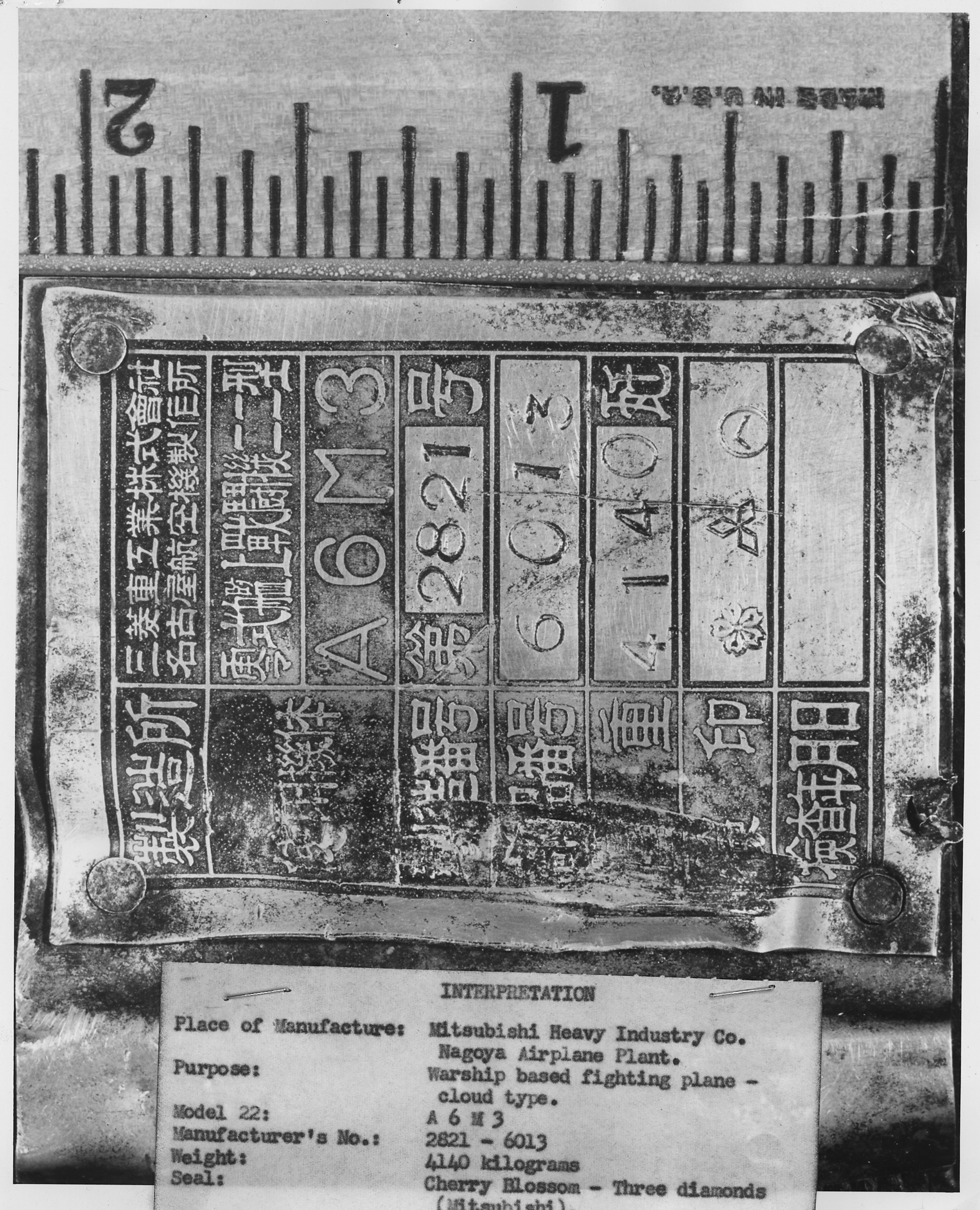 Scope and content: This report documents Japanese aerial attacks on mercant ships serving not only as cargo vessels, but often also as Army troop transports. This attack on the SS Alexander Majors is not specifically identified in the report as, but likely was accomplished by a "suicide plane."